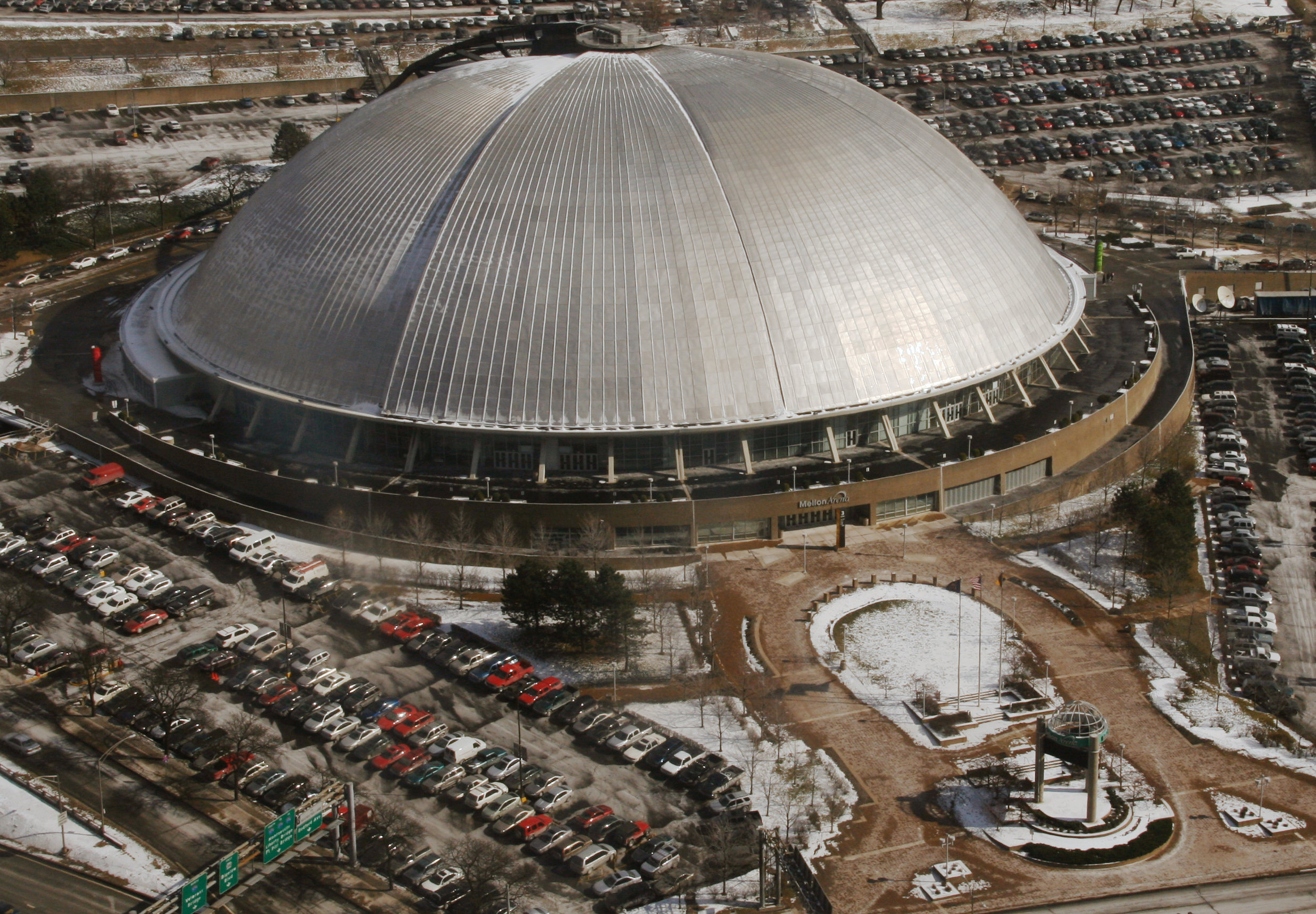 Mellon Arena in downtown Pittsburgh, Pennsylvania.